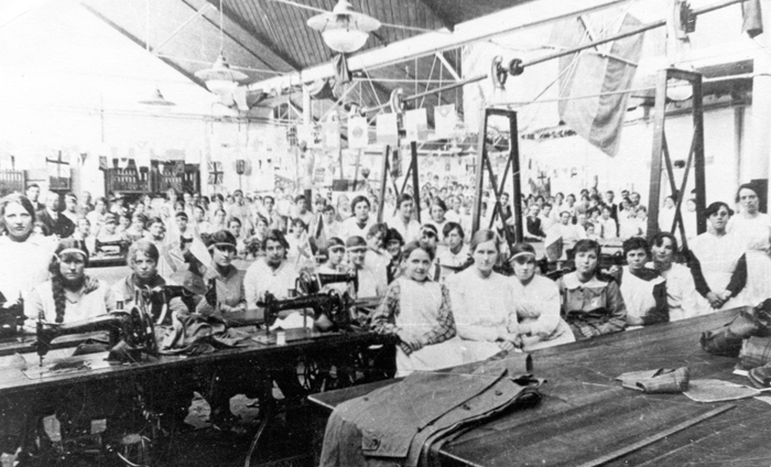 A photograph of factory workers.The seamstresses at Burberry's of Basingstoke pose at their machines right at the end of the war (1918). Burberry was responsible for producing many thousands of waterproof coats for military officers which became immortalised as the 'Trench' coat.